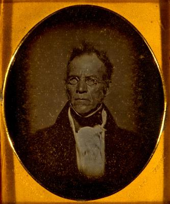 Isaiah Lukens, head-and-shoulders portrait, facing left